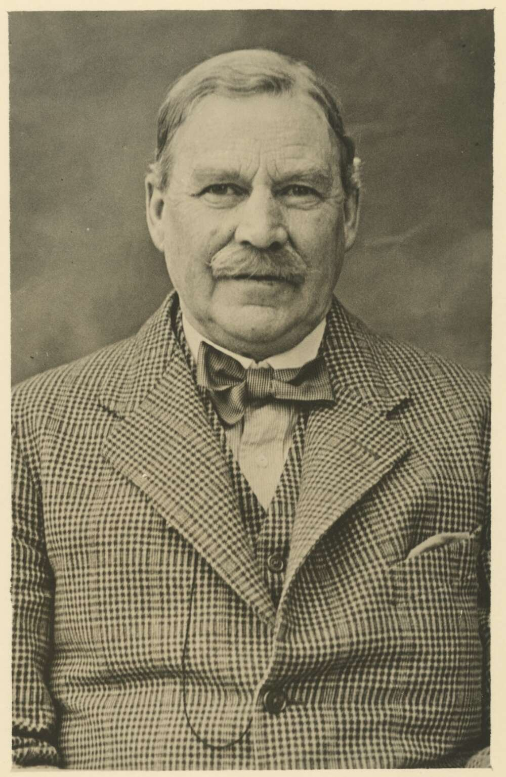 Will H. OGILVIE (1869--1963), Scottish-Australian bush poet, balladeer, and Border poet.